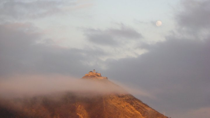 Gorijvari